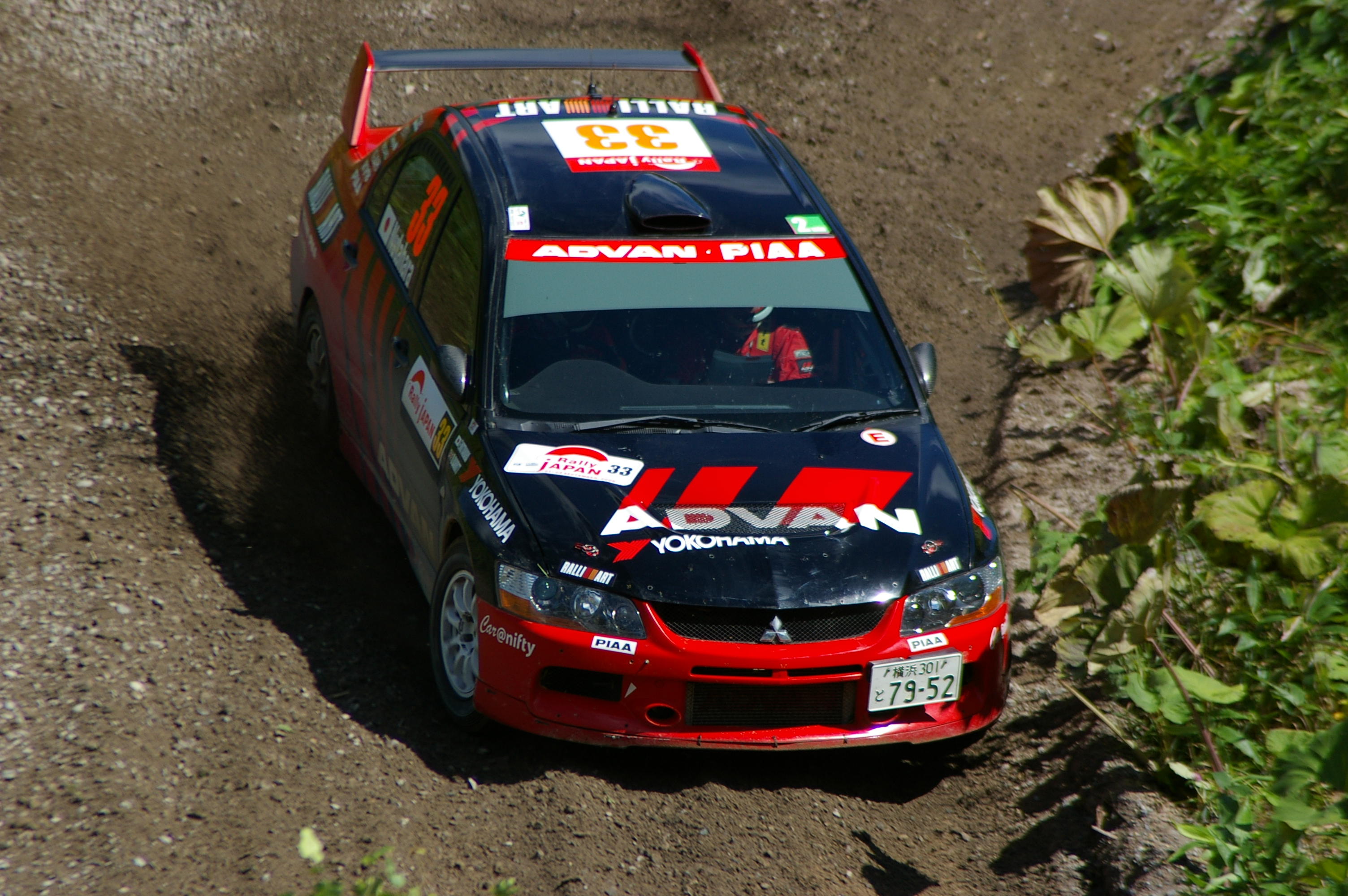 Mitsubishi Lancer Evolution IX Gr.N rallycar drive by Fumio Nutahara (ADVAN･PIAA RallyTeam ).